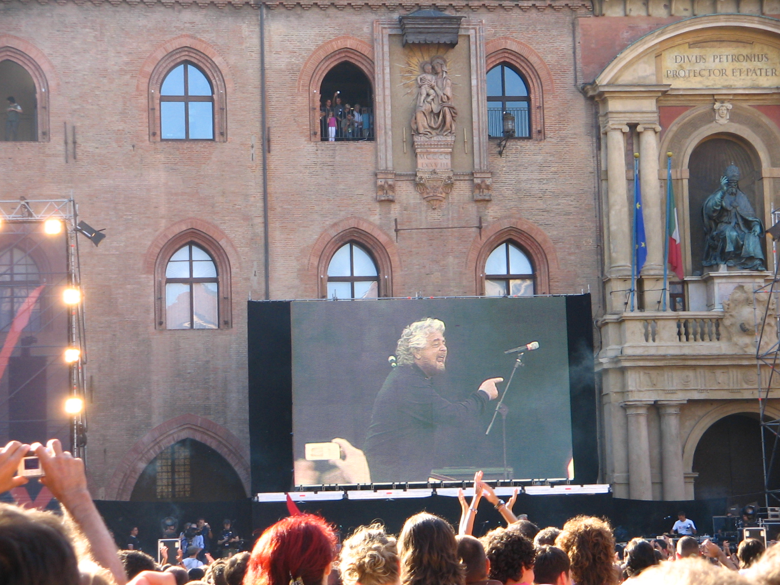 V-Day in Bologna; Beppe Grillo speaking on the stage